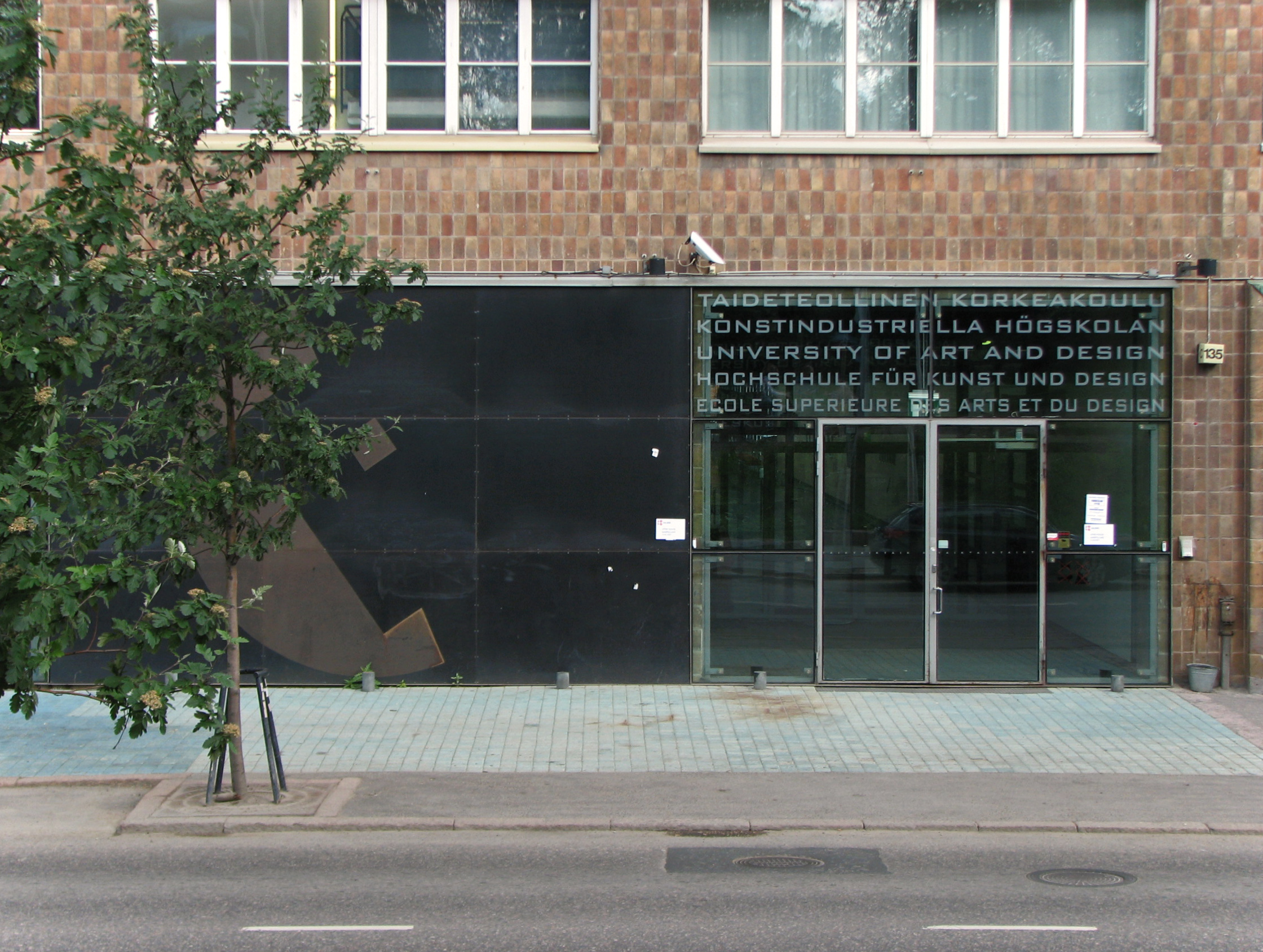 The main door of University of Art and Design Helsinki.